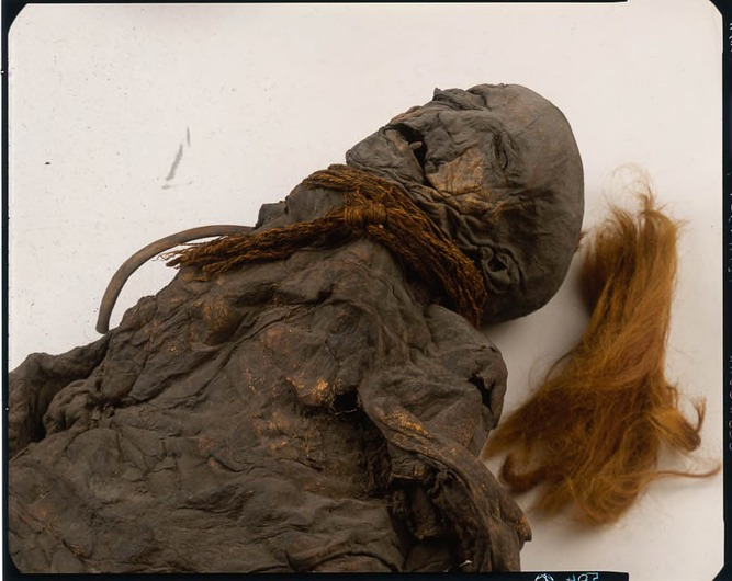 Remains of the bog body Yde Girl. The bog body was discovered turfing a bog Yde, Province Drenthe, Netherlands on 12 Mai 1897.